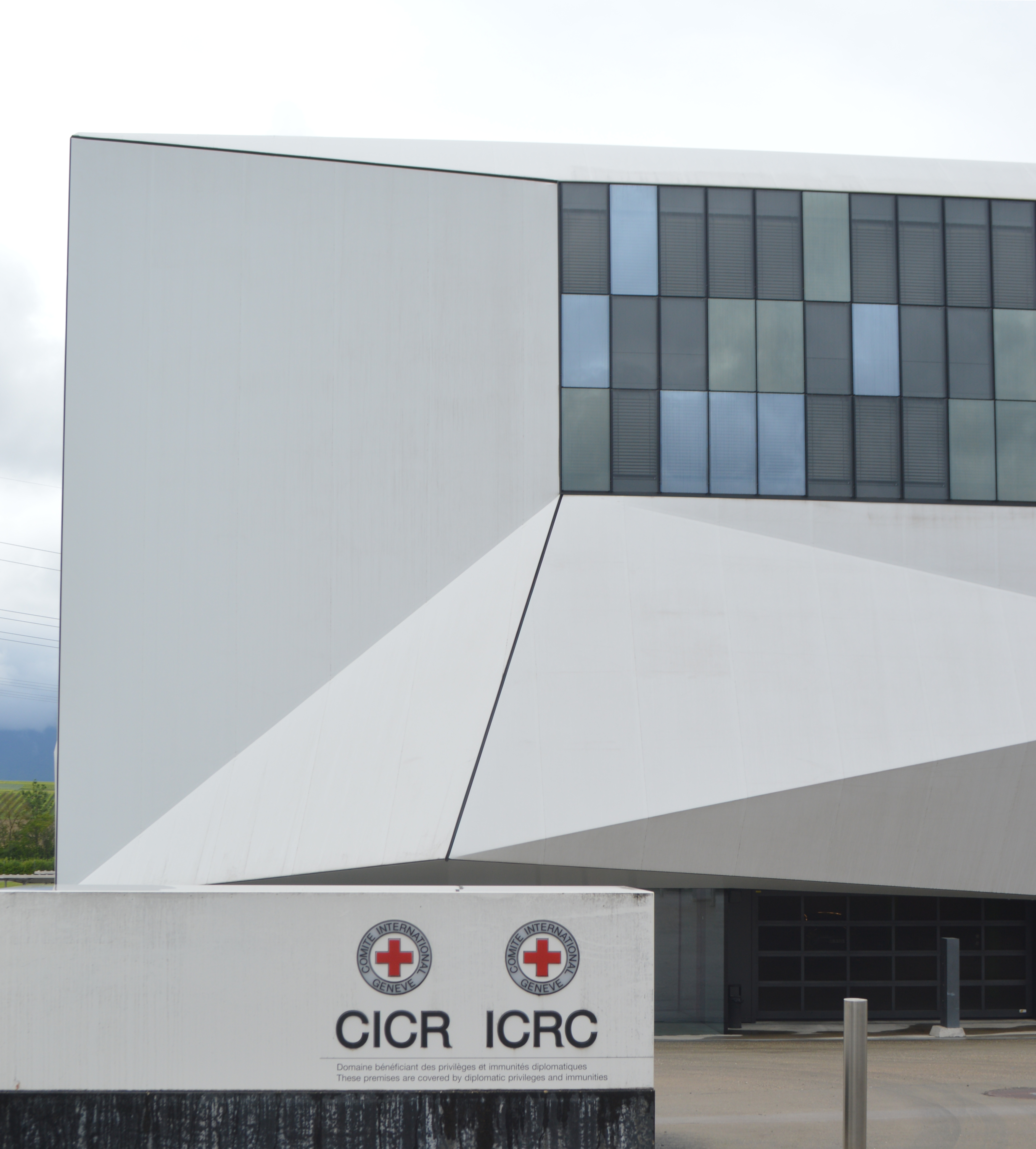 The archives of the International Committee of the Red Cross (ICRC) in Satigny, Canton of Geneva, housed in the ICRC logistics center which was inaugurated in 2011. - Photo taken and uploaded as part of the International Archives Week 2020 joint initiative of Wikimedia Switzerland, Austria and Germany and the Association of Swiss Archivists.